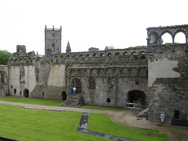 Bishop's Palace: courtyard and East Range ... and the cathedral tower behind.